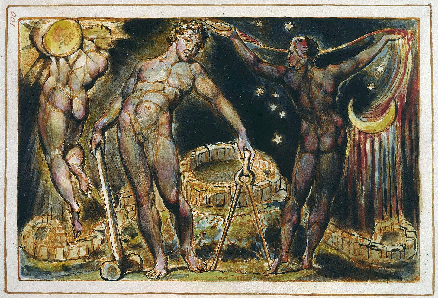 Plate 100 depicting Los and Enitharmon of Jerusalem The Emanation of the Giant Albion. Originally scanned here, image was reduced in size by uploader.